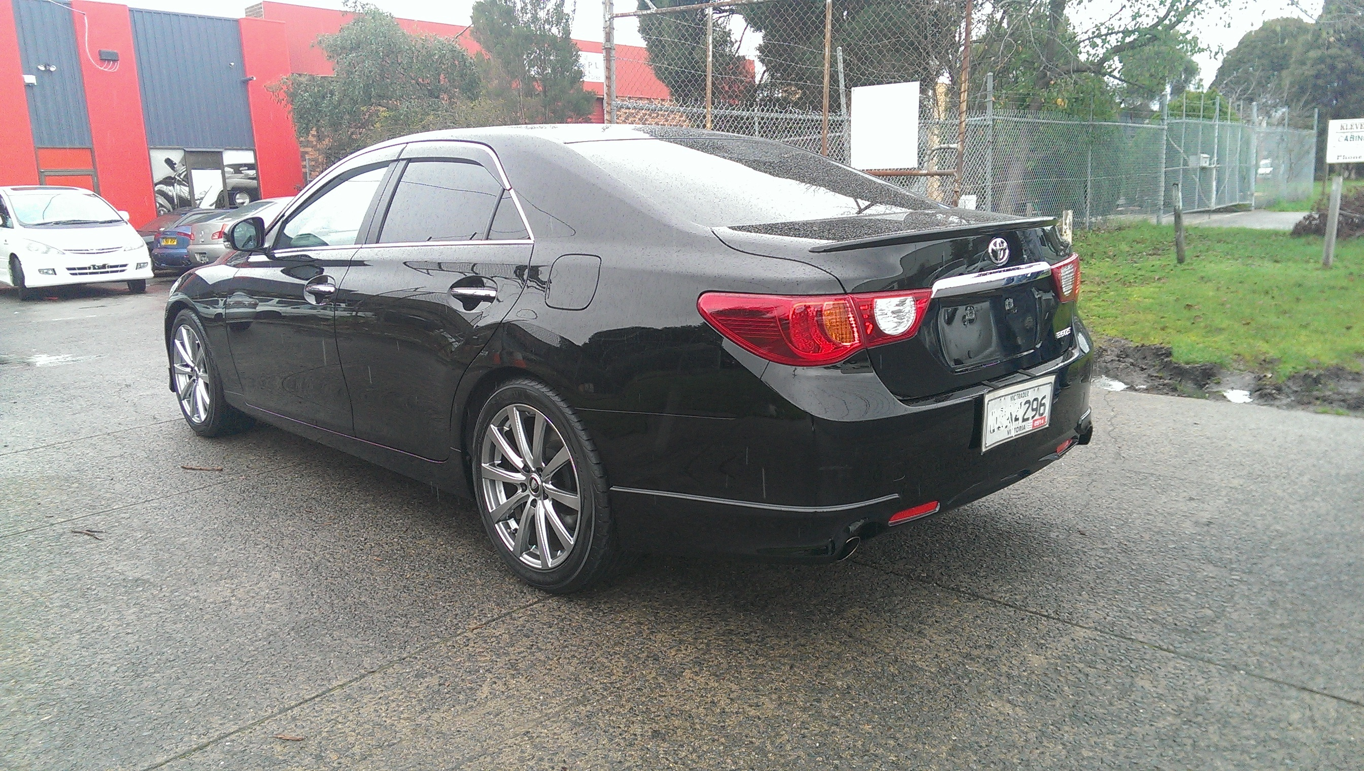 The first Mark X in Australia